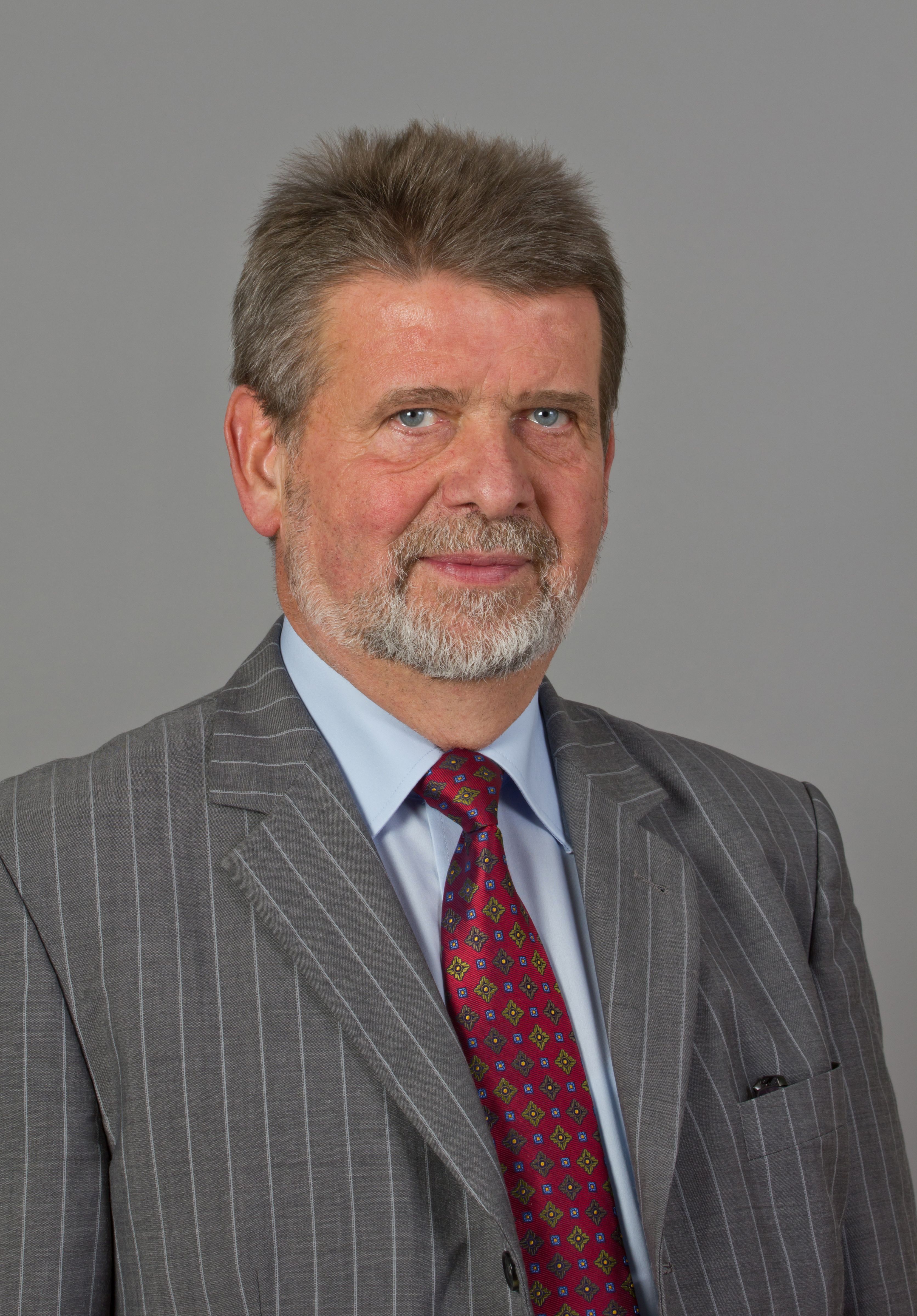 Alex Lubawinski, politician from Germany, member of Abgeordnetenhaus of Berlin (as of 2013)